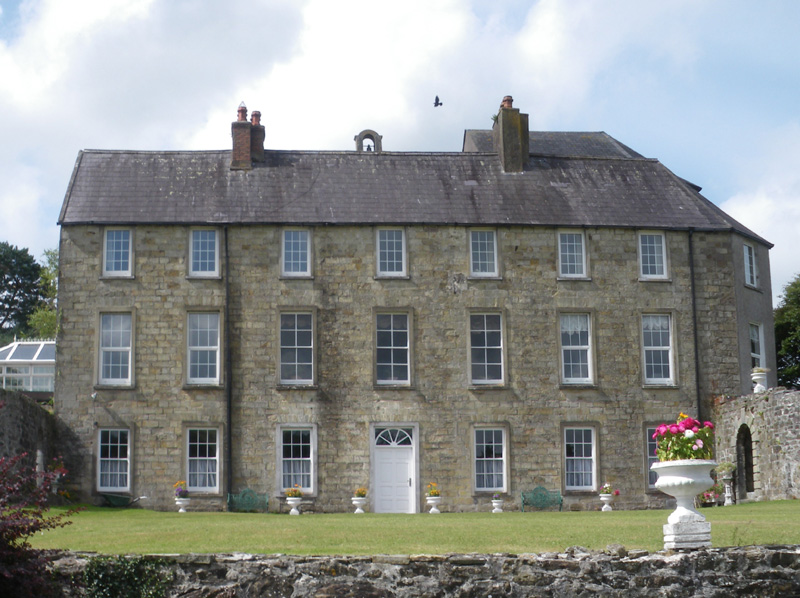 Photograph of Riverstown House, County Cork, Ireland, taken by me in August 2010.